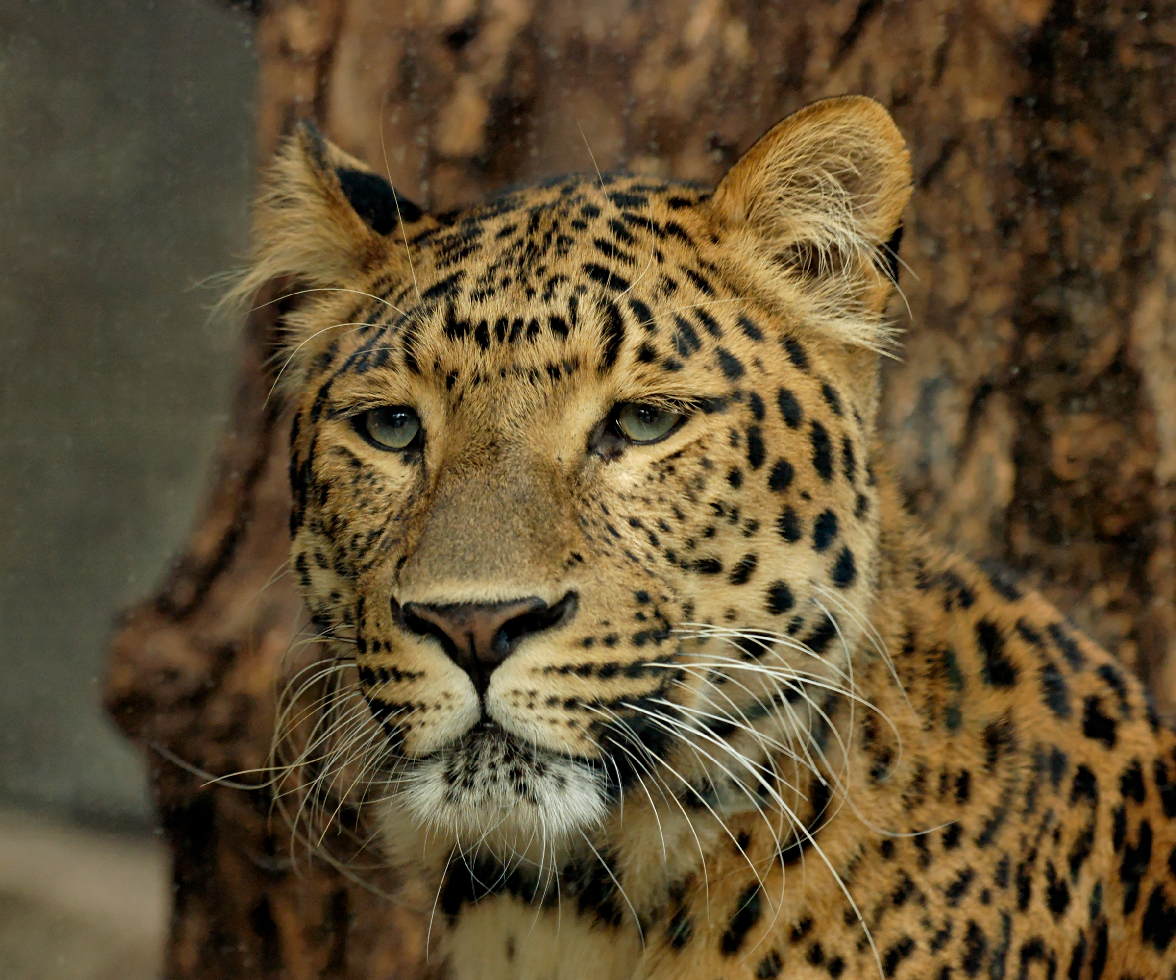 North China leopard (Panthera pardus japonensis) seen through the glass of its cage. From the zoological garden of the Jardin des Plantes in Paris.